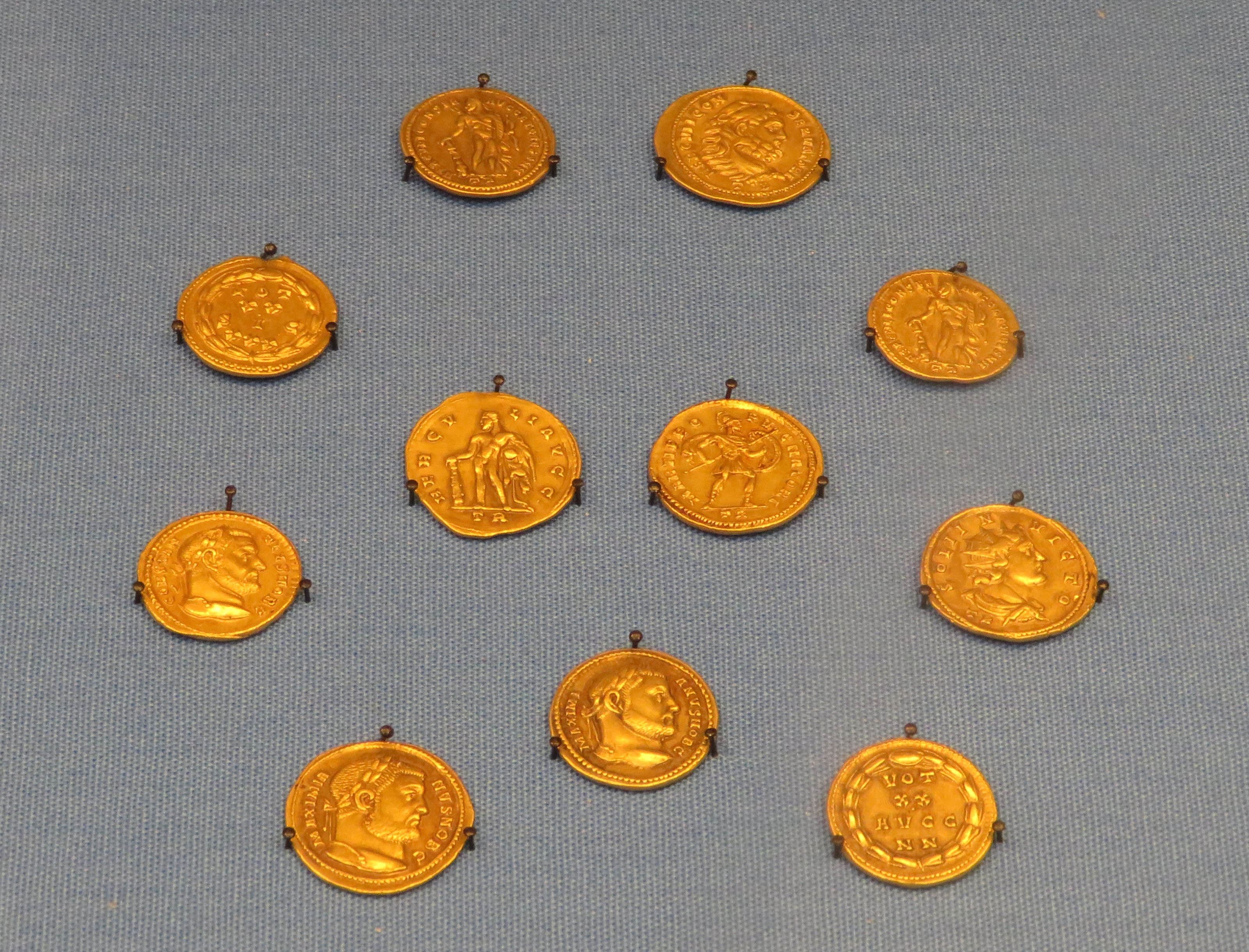 Selection of Roman gold coins from a hoard of gold and silver coins, jewellery and silverware discovered in 1922 at Beaurains near Arras in northern France. On display at the British Museum.